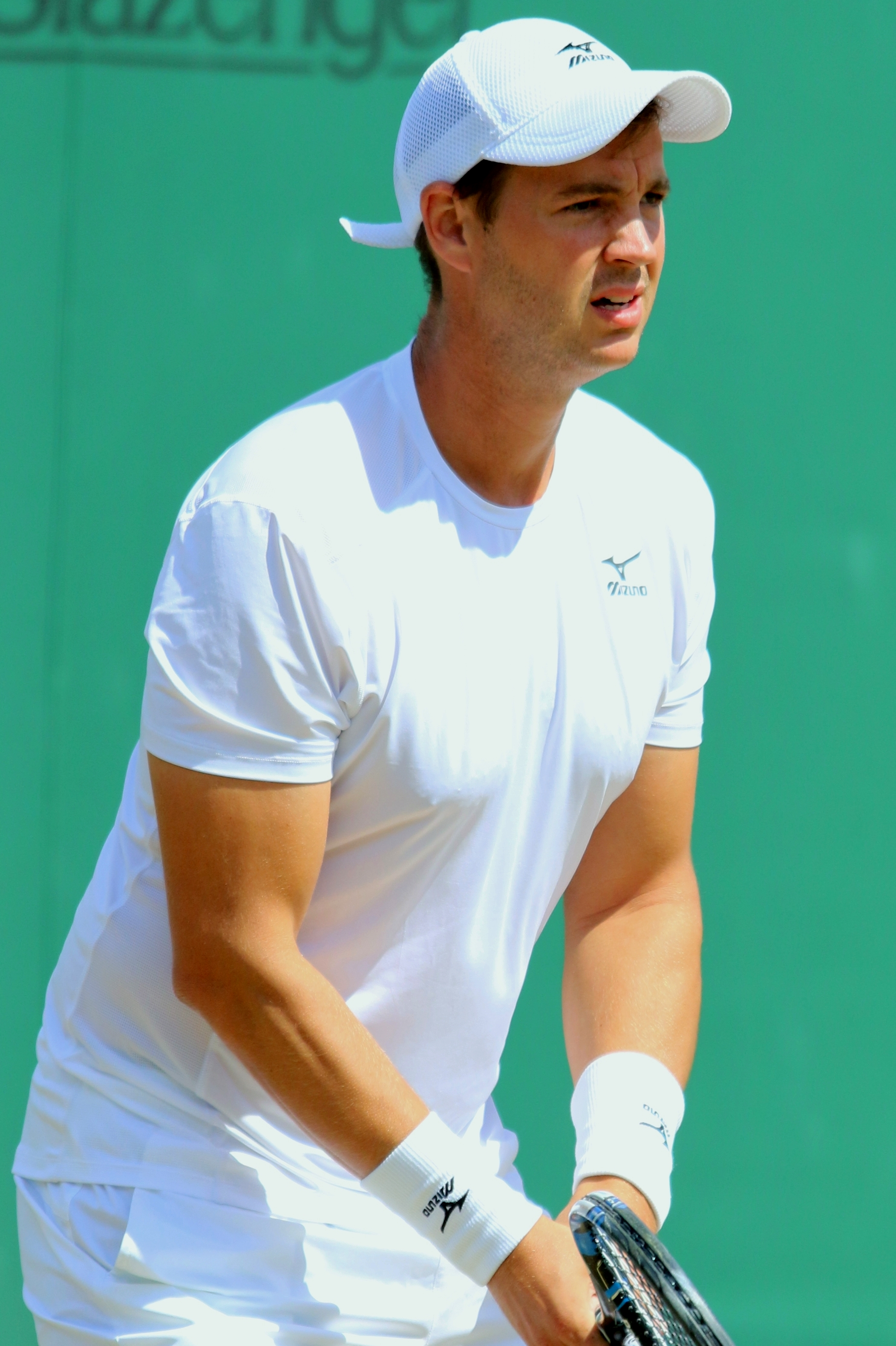 Willis WM17 (3)